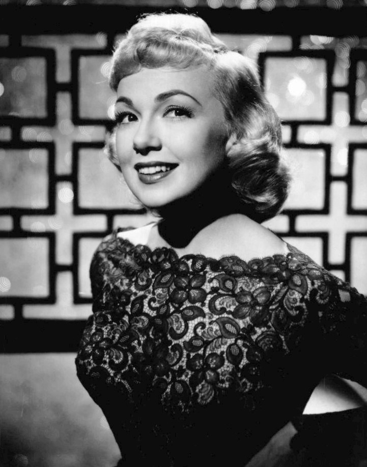 Publicity photo of Edie Adams in 1958.